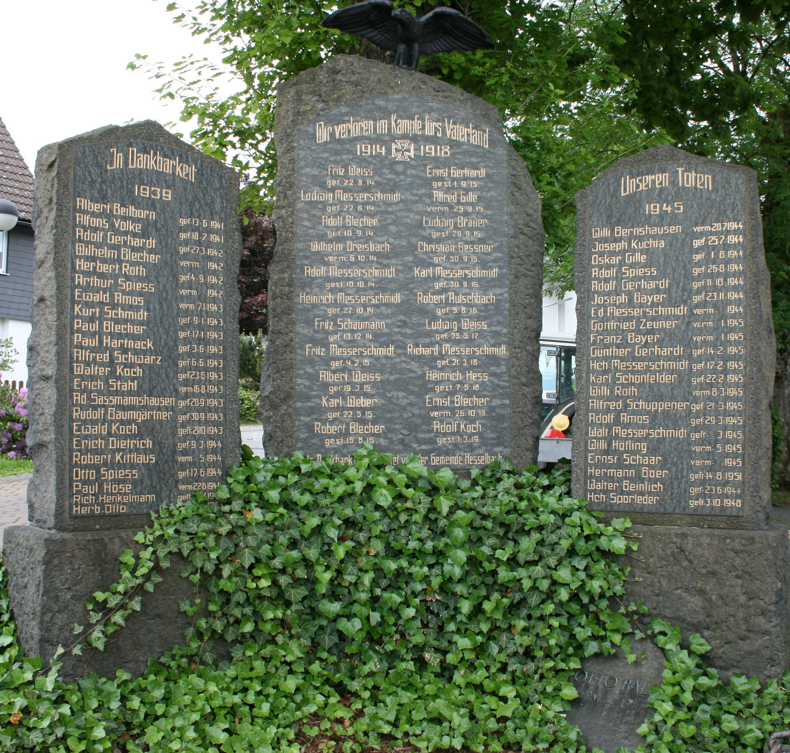 Hesselbach (Germany): memorial in village centre.